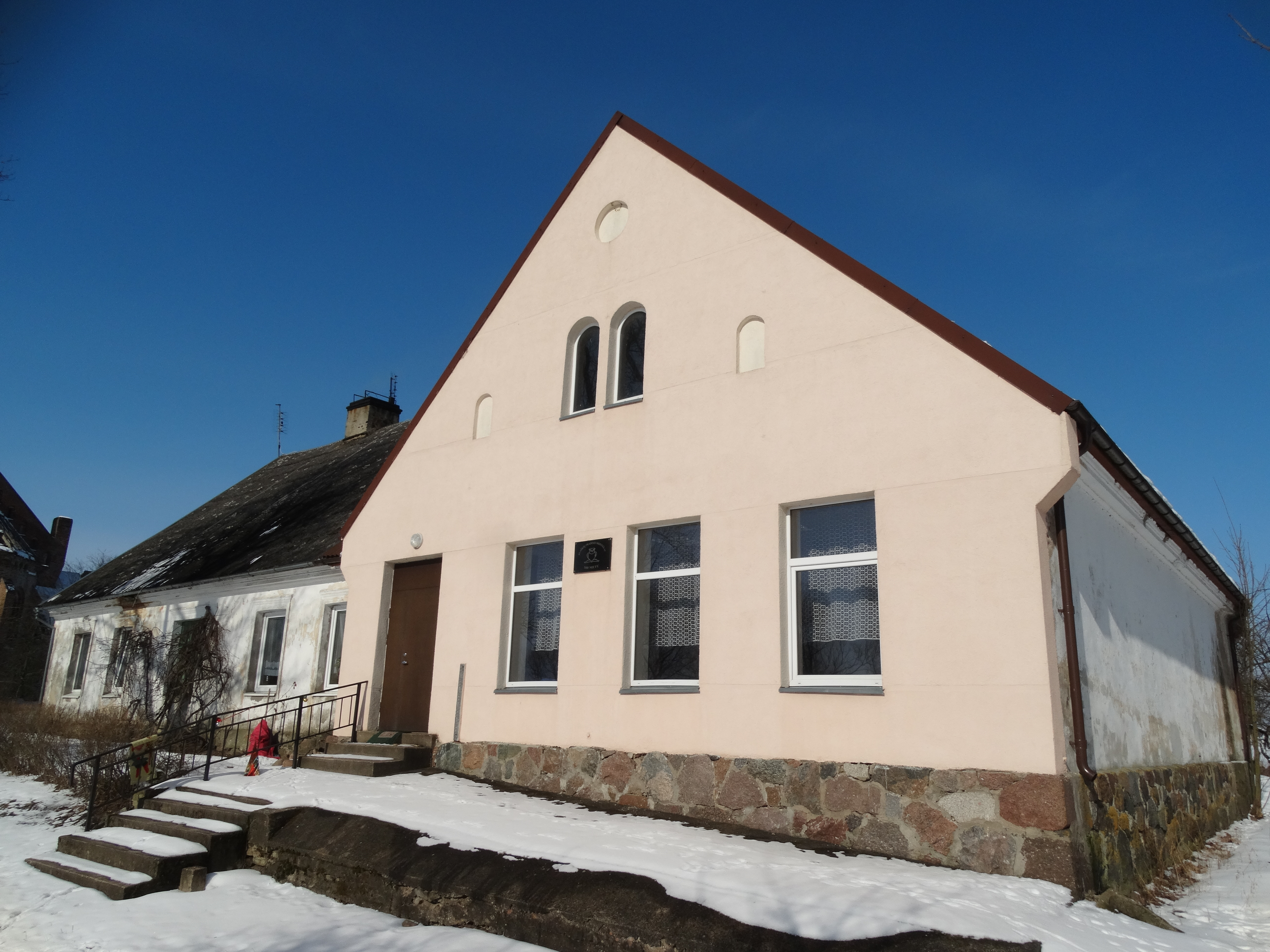 Plaškiai, former school, Pagėgiai Municiality, Lithuania